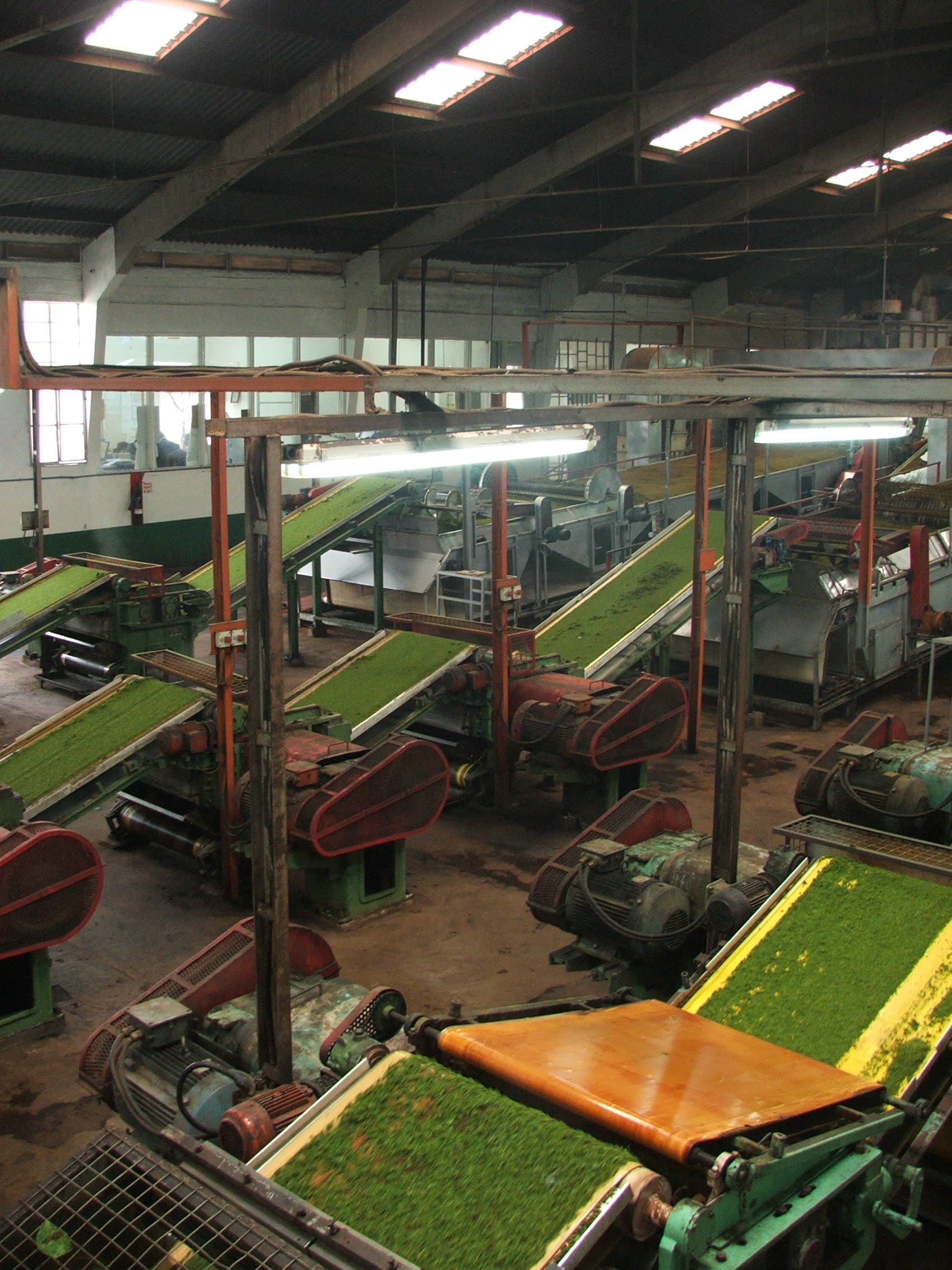 A teafactory in Rungwe, near Tukuyu, Tanzania.